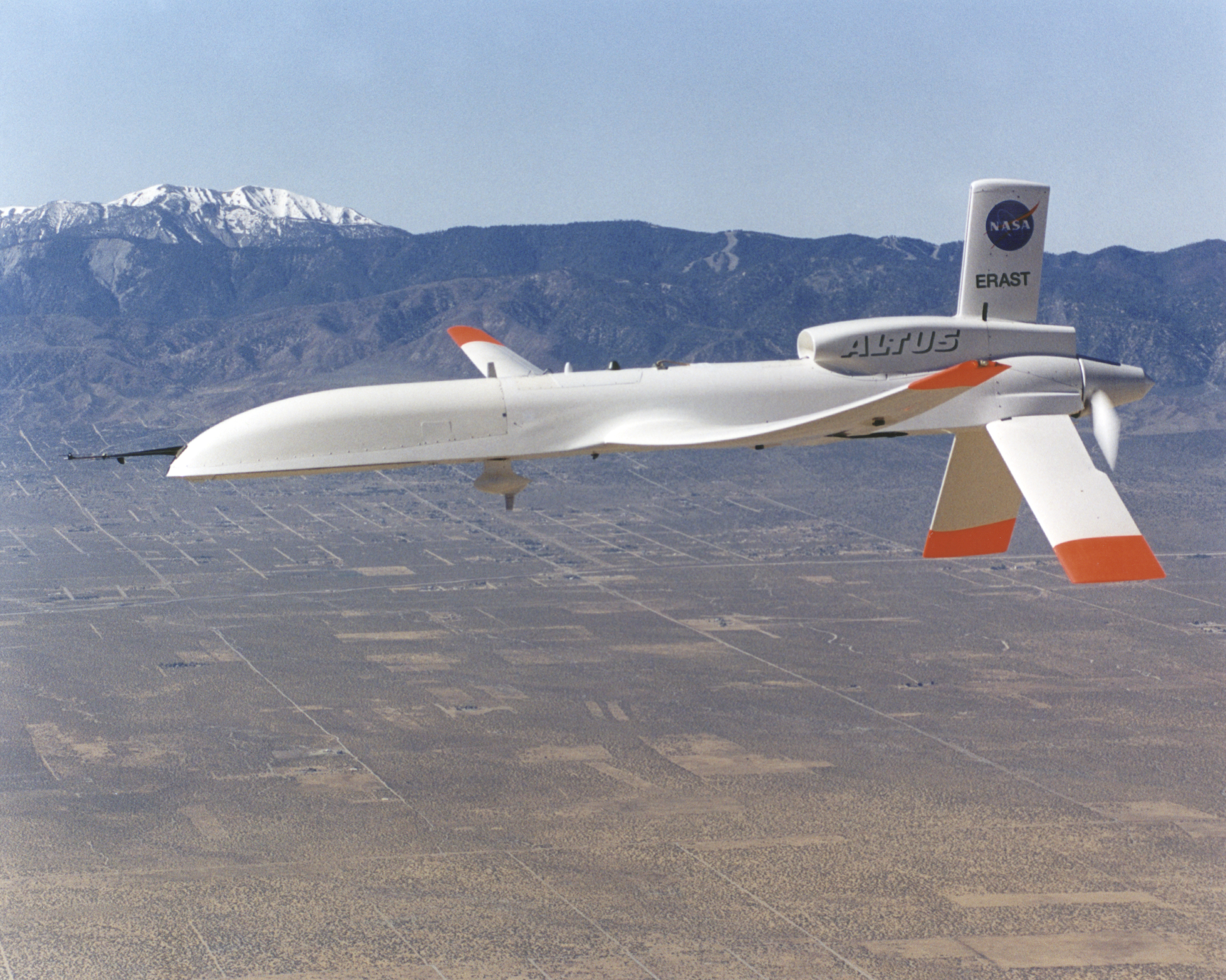 The snow-capped peak of Mt. San Antonio in the San Gabriel range is visible as the remotely piloted Altus II flies over Southern California’s high desert.